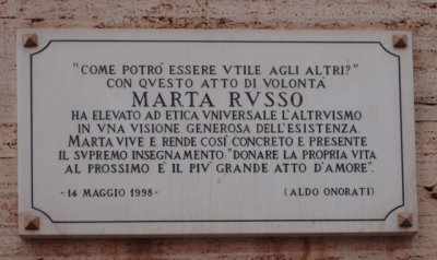 memorial to Marta Russo, student, murdered at the University of Rome La Sapienza, located near the place where she was shot